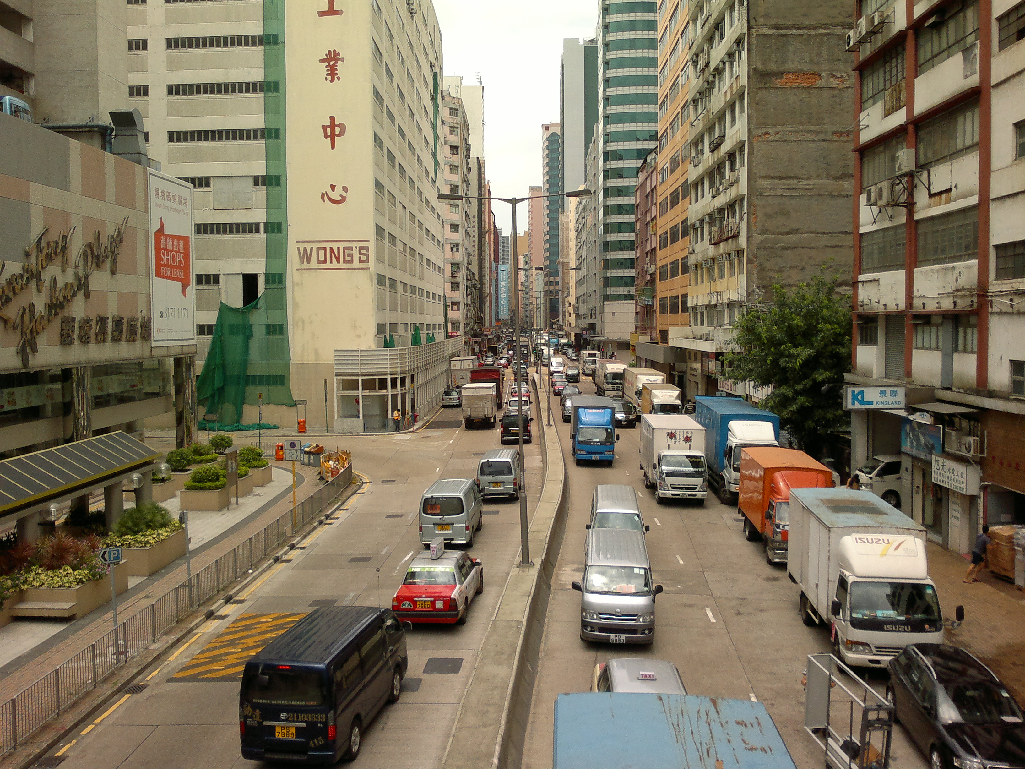 Wai Yip Street near Kwun Tong Harbour Plaza